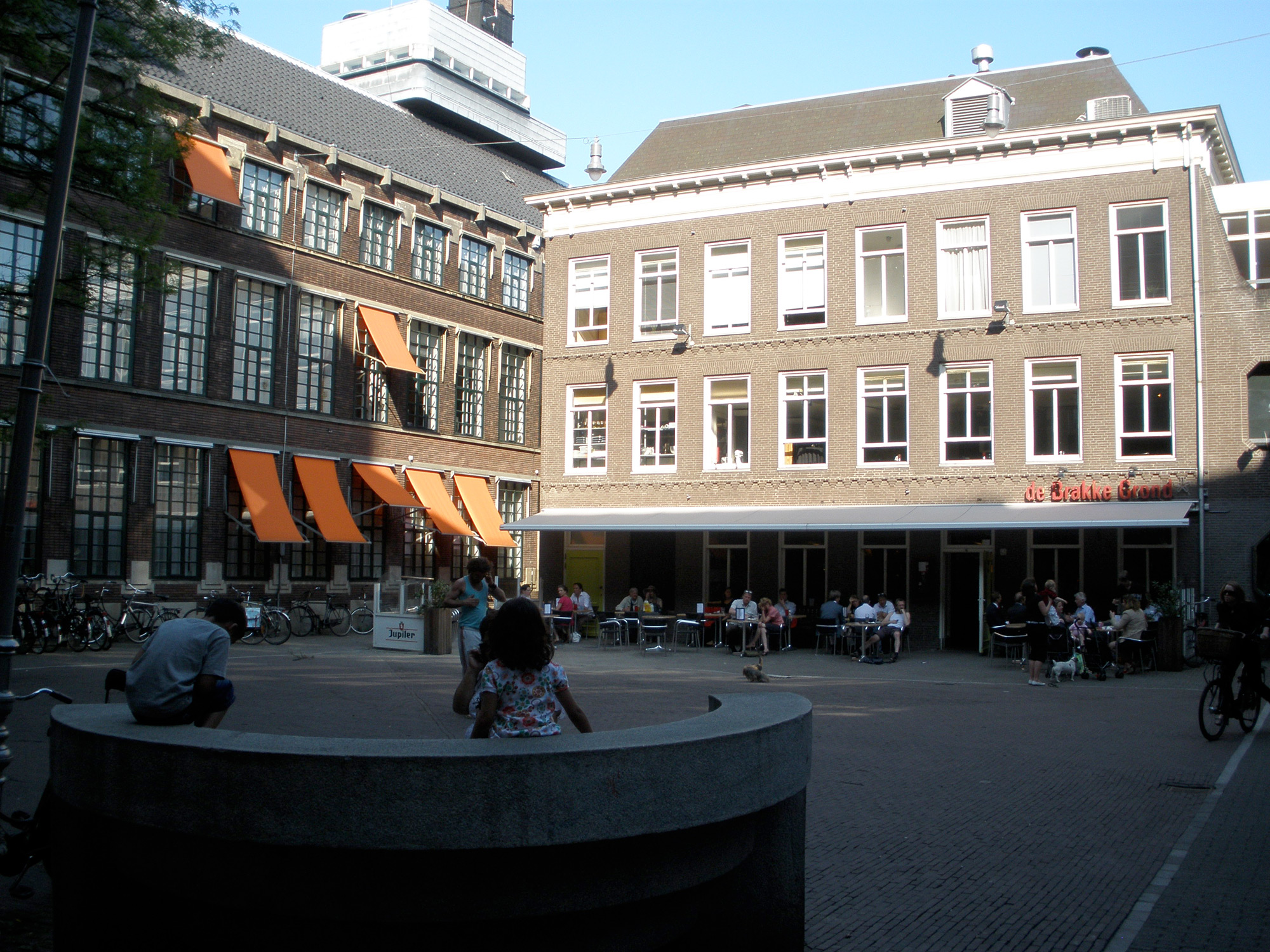 The Flemish cultural centre De Brakke Grond in Amsterdam